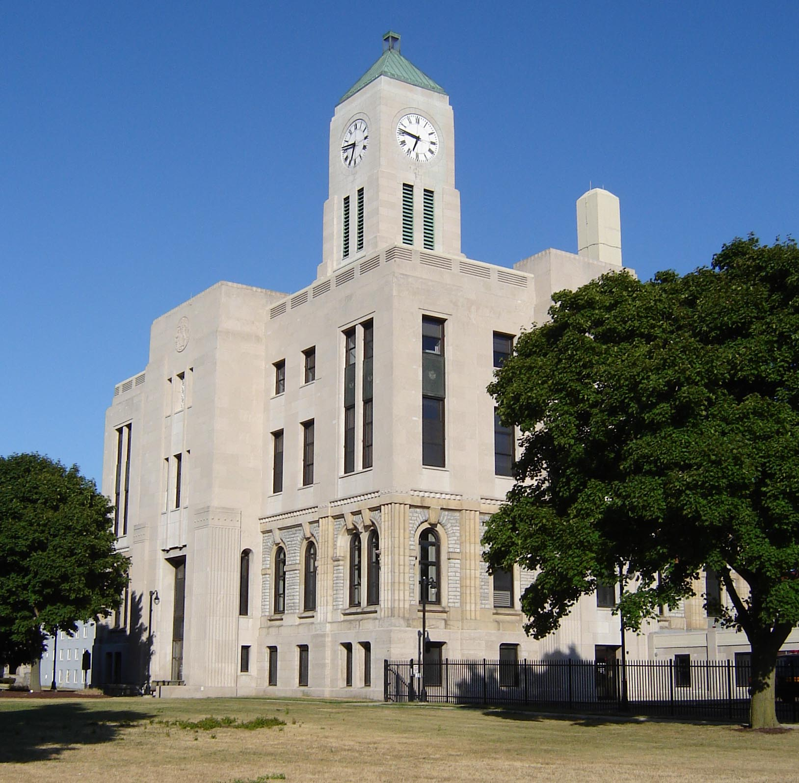 Ohio - Erie County Courthouse - Sandusky - 07-14-07 By:Mike Sharp.